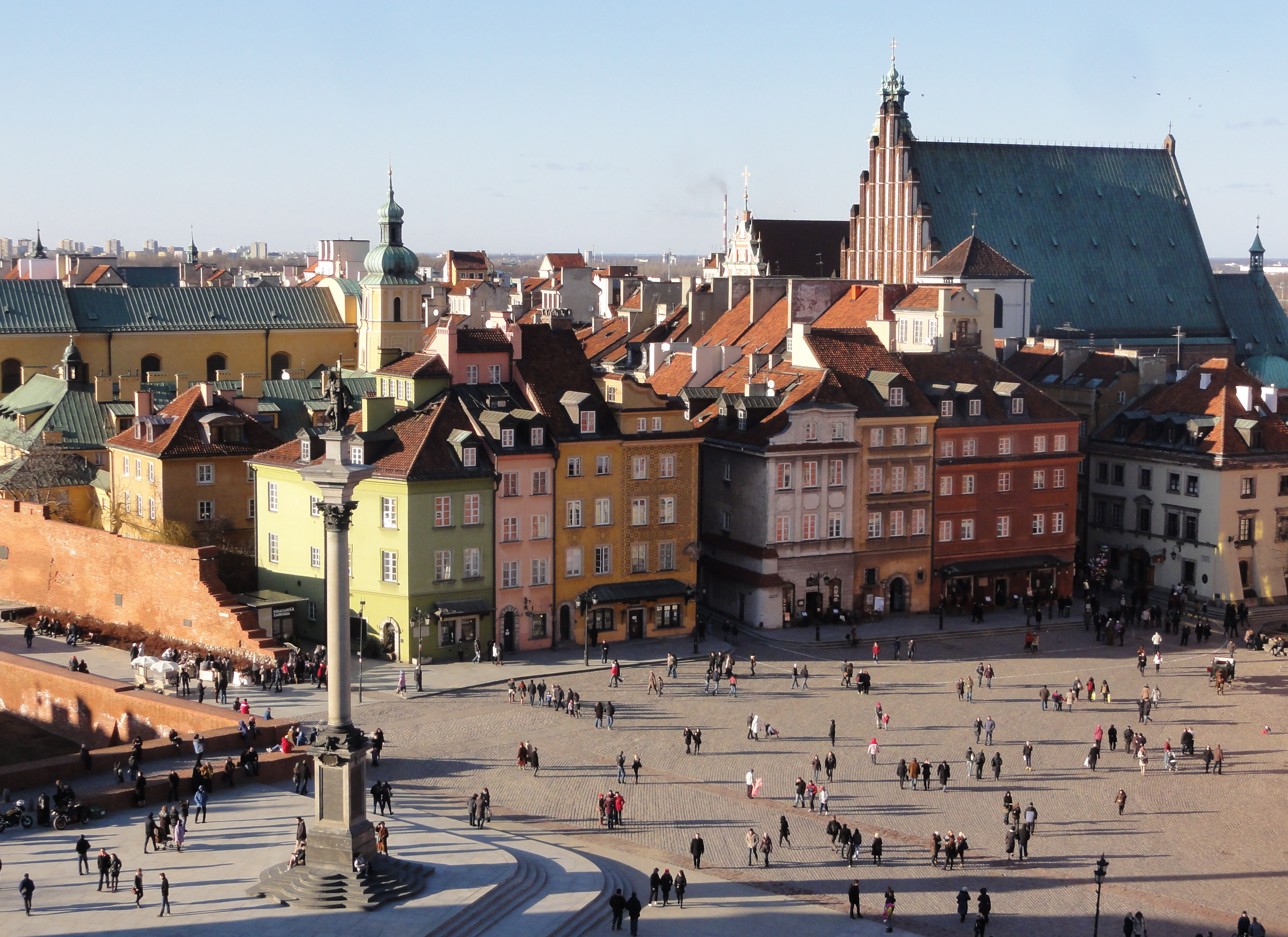 Castle Square in Warsaw